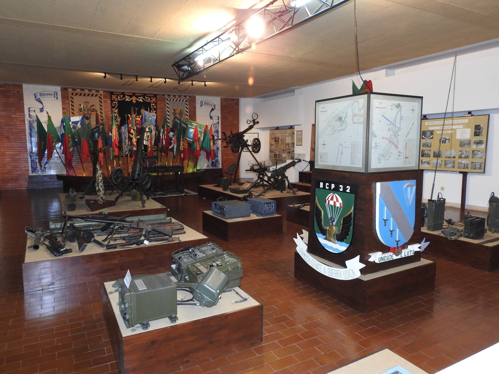 View inside the Portuguese Tropas Paraquedistas (paratoopers) Museum